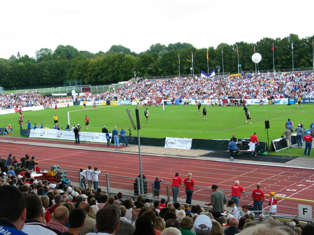 Fist Ball World Championships: Bronze Medal Match